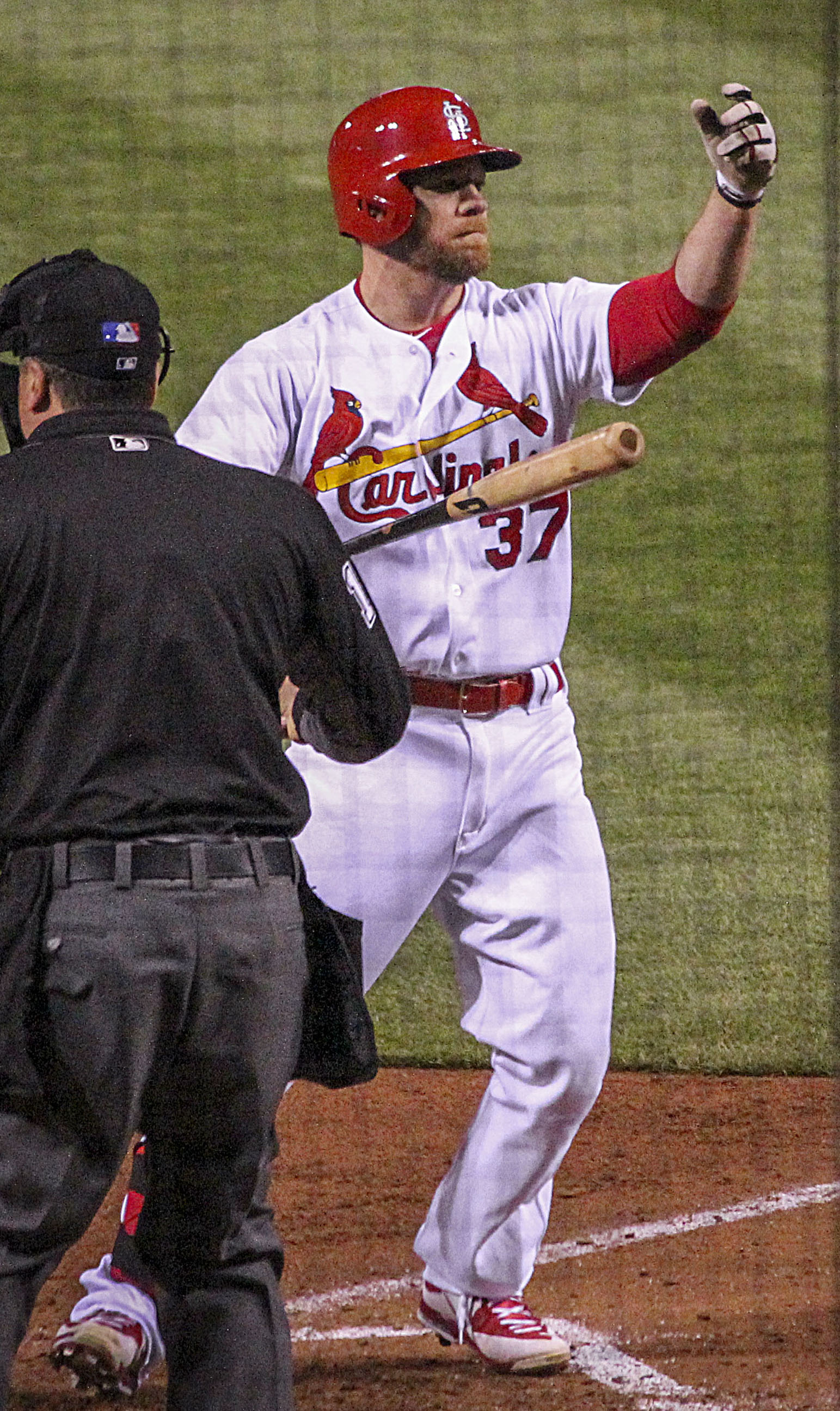 Brandon Moss of the St. Louis Cardinals.